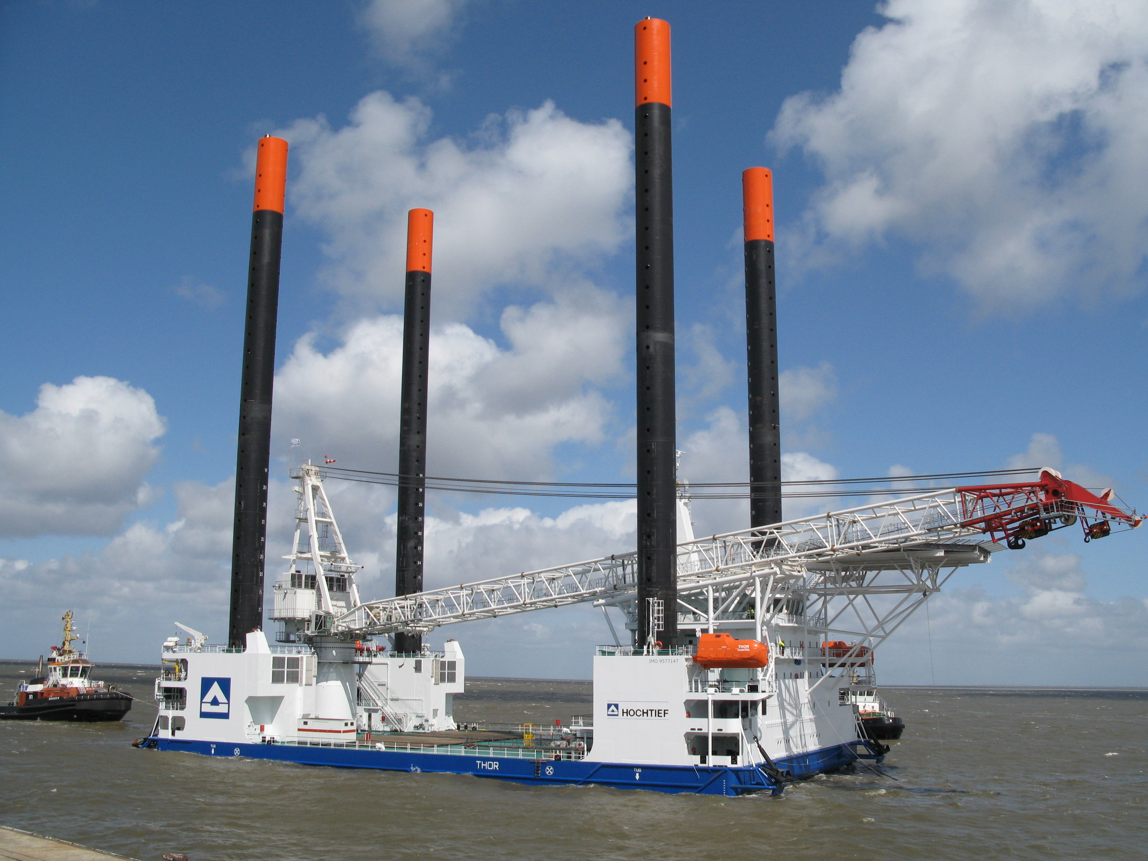 Jackup rig "Thor"